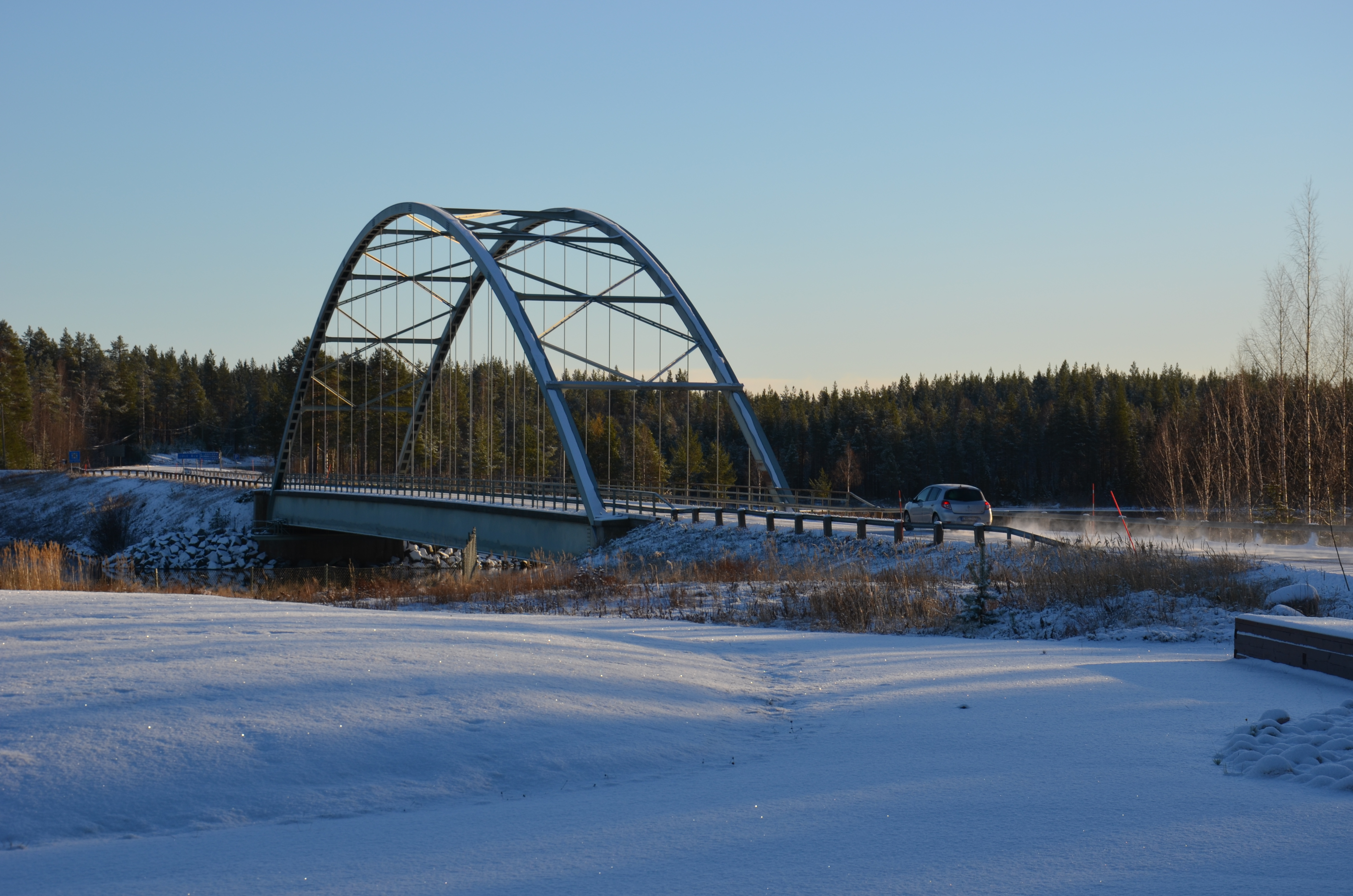 Vägbron över Lule älv vid Edefors på riksväg 97, norr om Harads